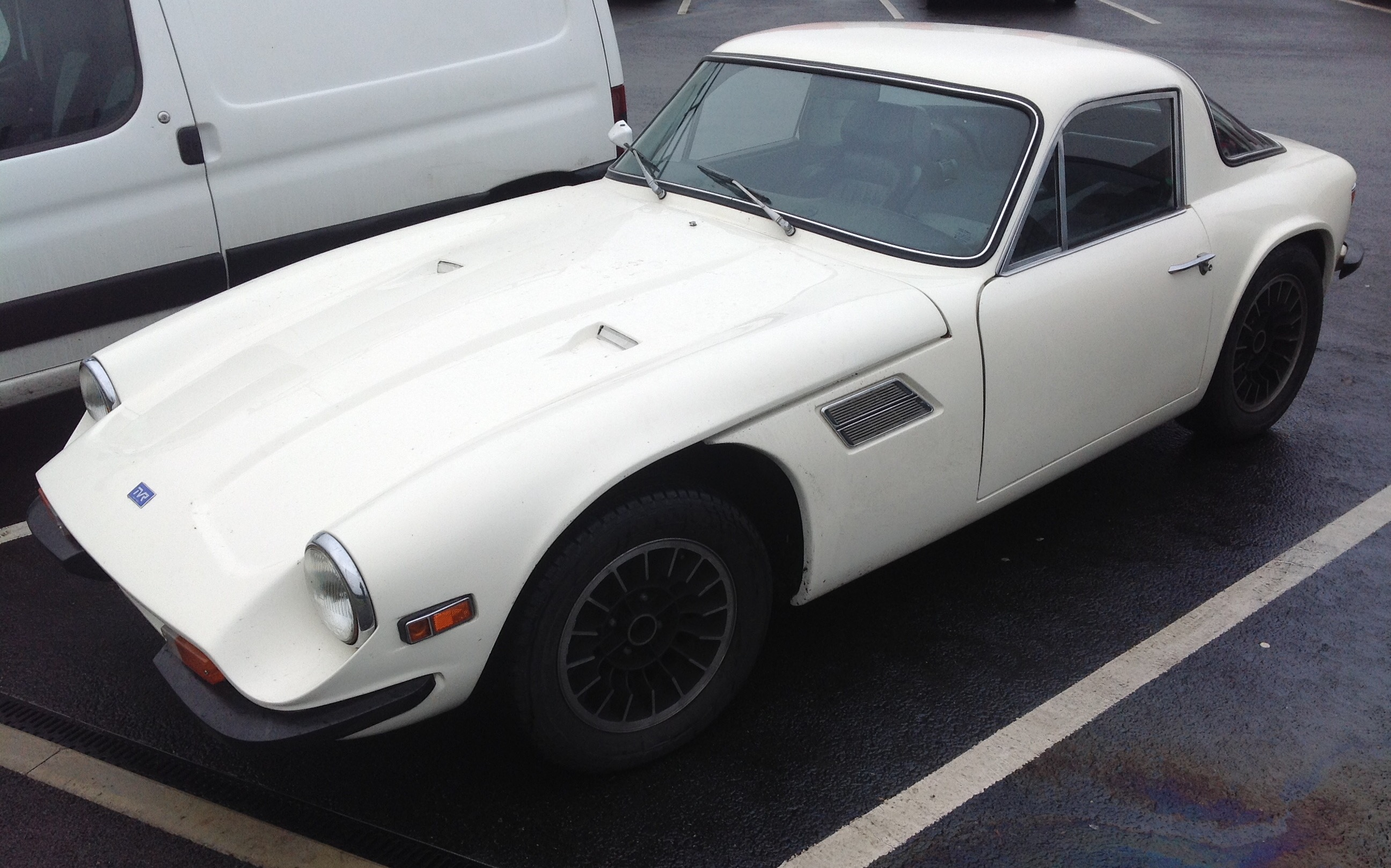 1972 TVR 1600M at the Haynes International Motor Museum, Sparkford, Somerset. Breakfast Club, Sunday 8 January 2017